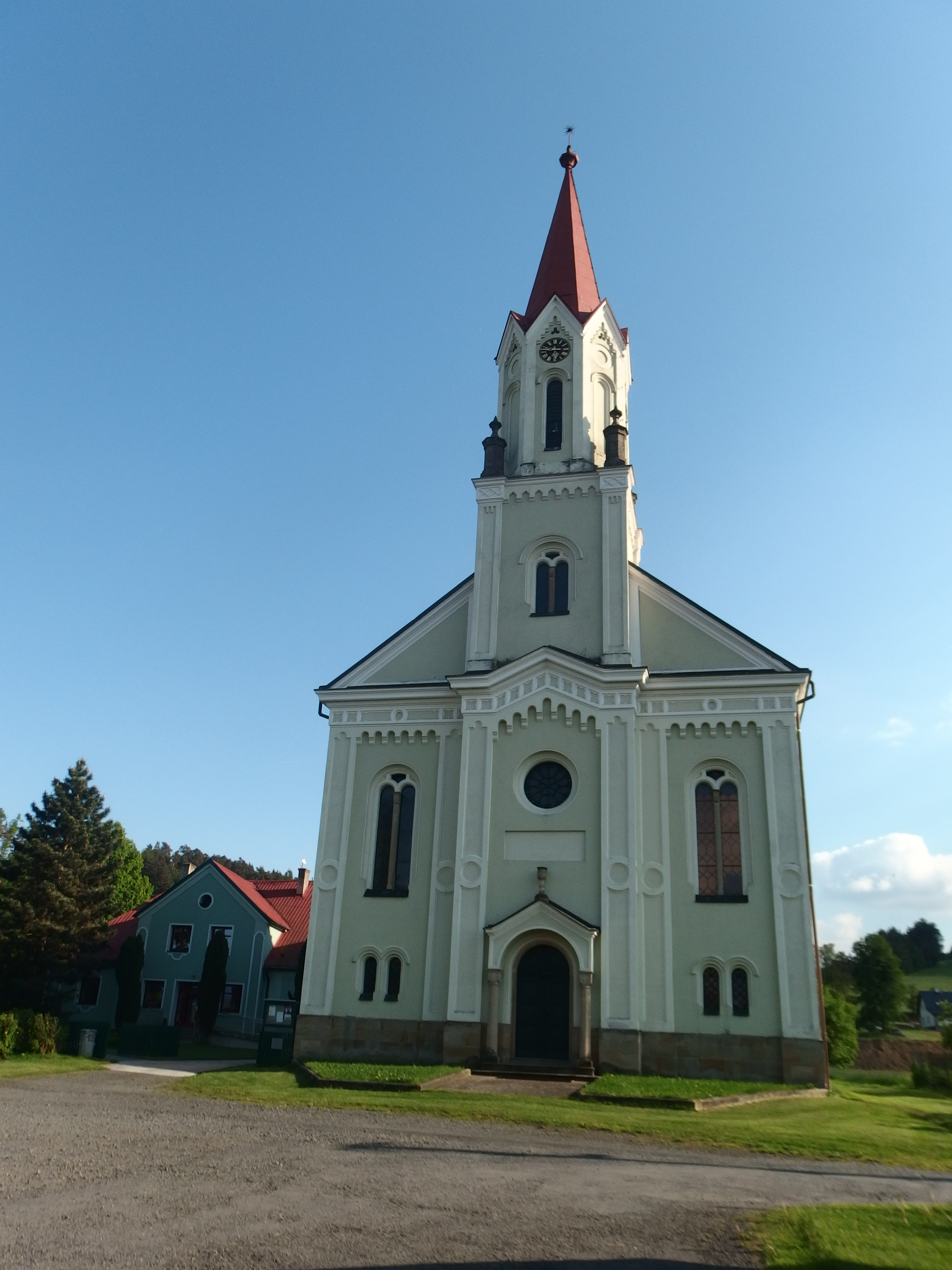 Střítež nad Bečvou, Vsetín District, Czech Republic.